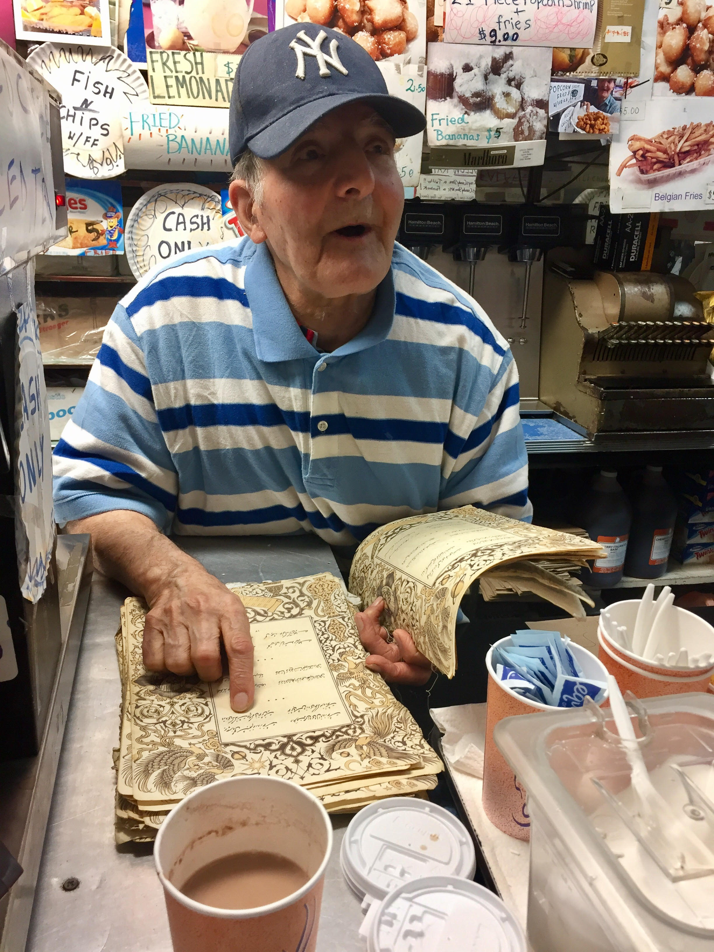 Ray Alvarez (born Asghar Ghahraman), owner of Ray's Candy Store in New York City's East Village.